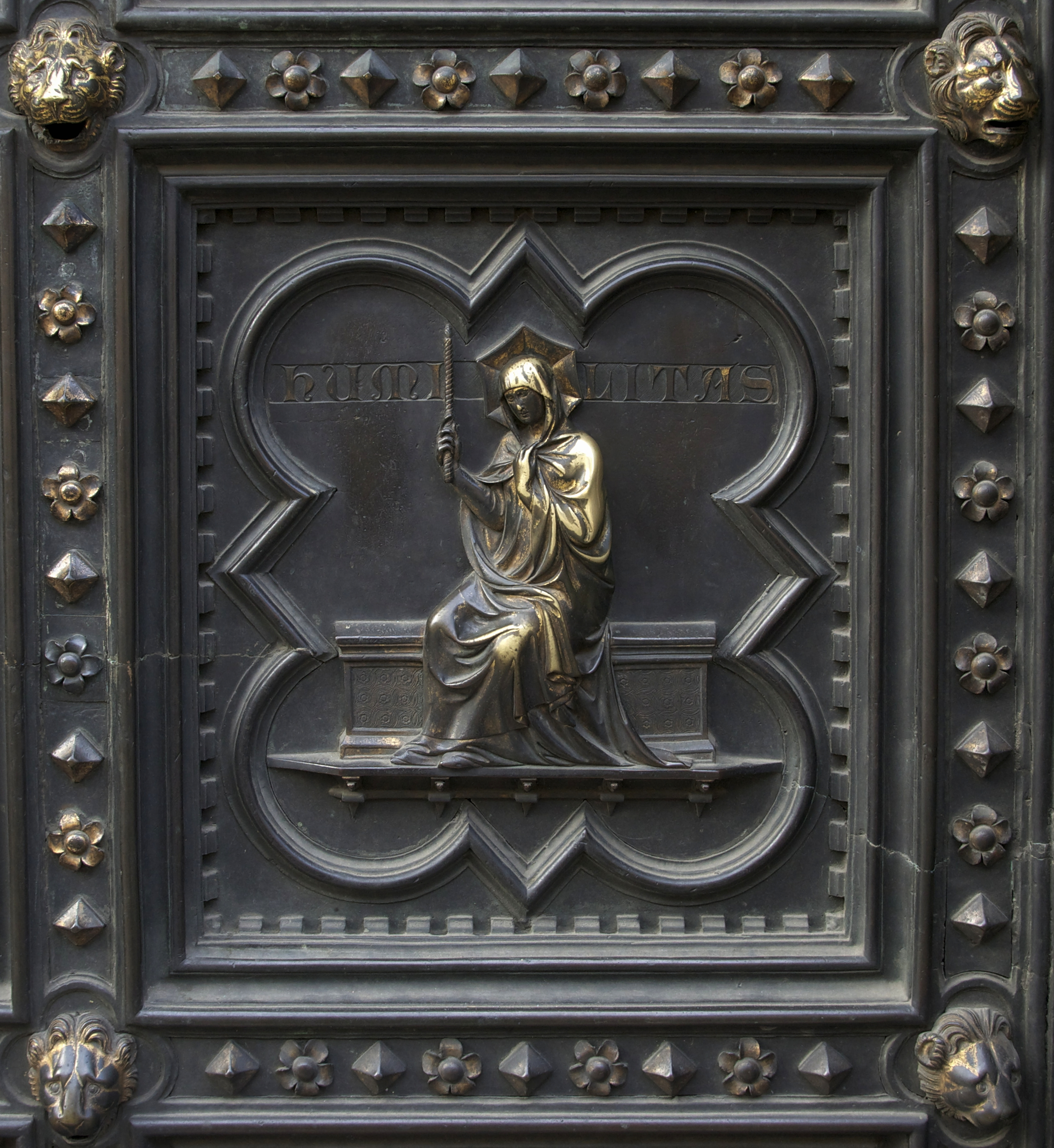 "Humility", on the bronze south doors (by Andrea Pisano) of the Florence Baptistery, Italy.